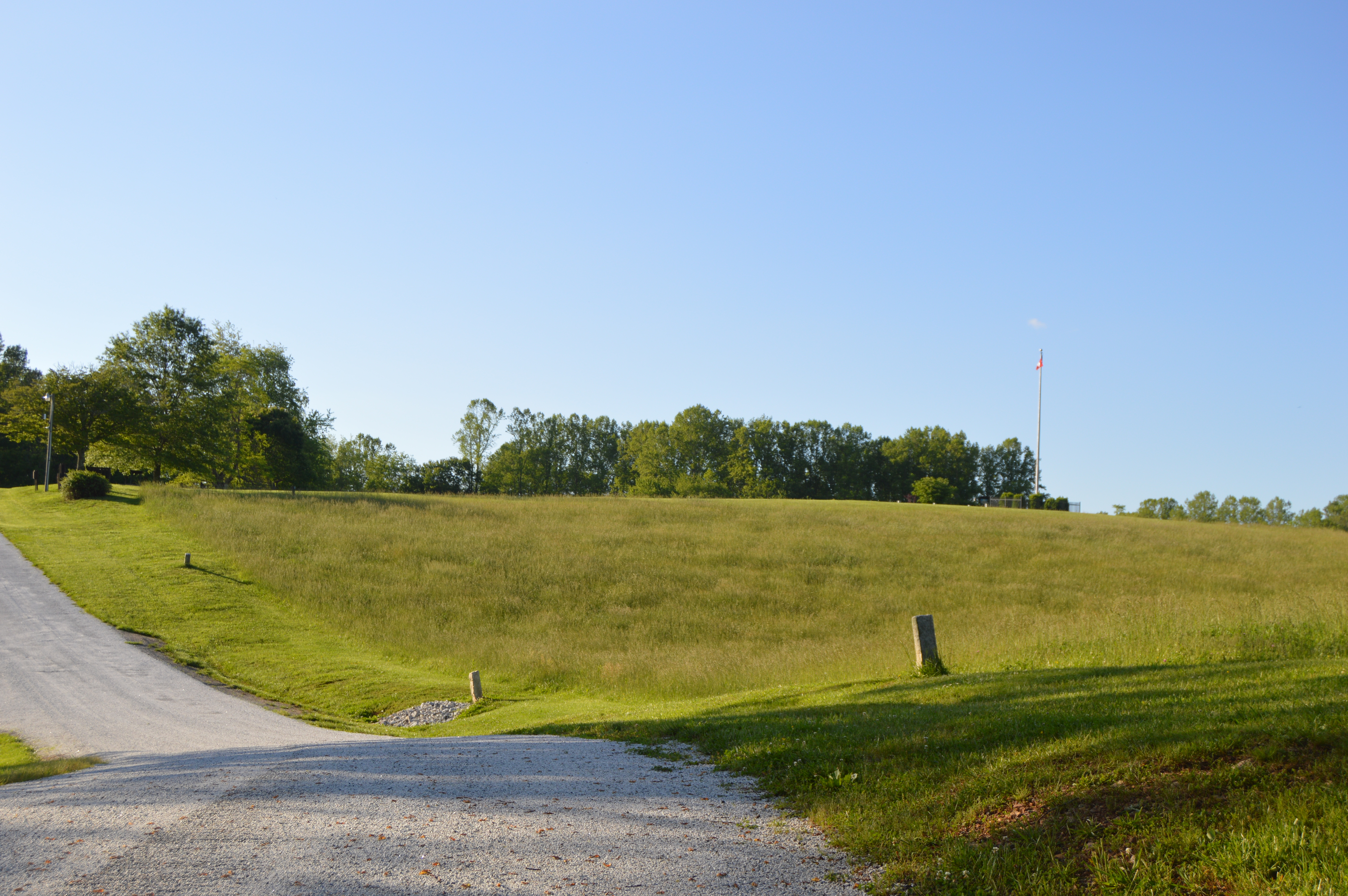 Fields at Laurel Hill Farm, the birthplace of J. E. B. Stuart, located off the Ararat Highway in extreme southwestern Patrick County, Virginia, United States. The farmsite, now operated as a park, is an archaeological site and is listed on the National Register of Historic Places.